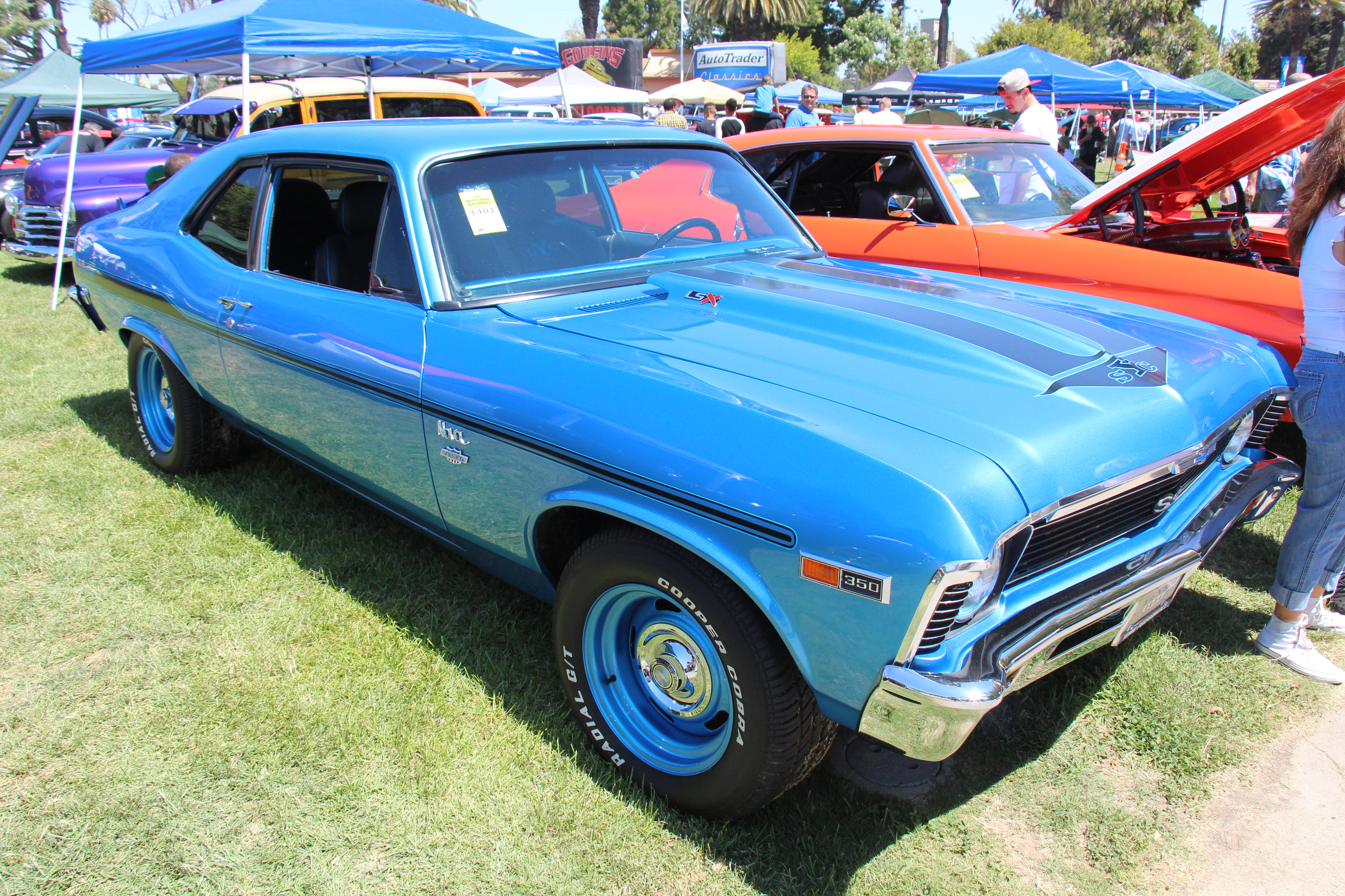 The Nova or Chevy II as it was earlier known, was a compact car running through 5 generations from 1962-79 and 1985-88. The 1st generation ran from 1962-65, the 2nd from 1966-67, it got sharper edges, a new grille and a semi fastback roofline This the 3rd generation was fully redesigned, running from 1968-74, the SS was now a true performance model, standard with 350 cu in V8 and optional 396 with350 or 375 hp In 1969, retired race car driver and muscle car specialist Don Yenko refitted 37 3rd generation Novas with the 427cu in V8. In 1970 he also built high performance 350 versions (engine from the Z28 Camaro), this car is one, they got suspension, transmission, and rear axle upgrades along with some very lively stripes, badges, and interior decals.